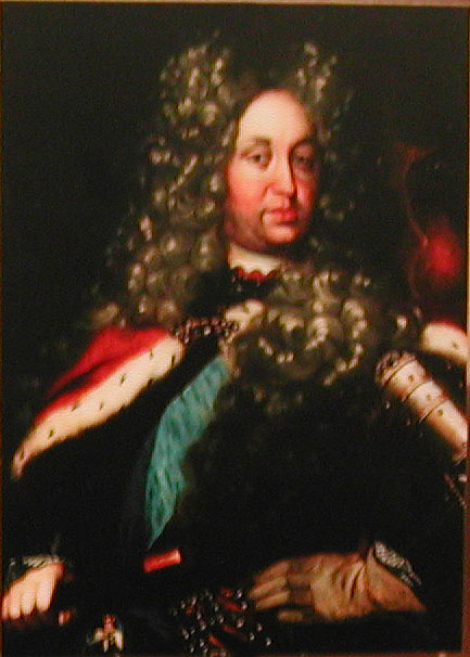 Georg Albrecht Cirksena, unsigned portrait. See this article on the image's restoration for further information (in German).